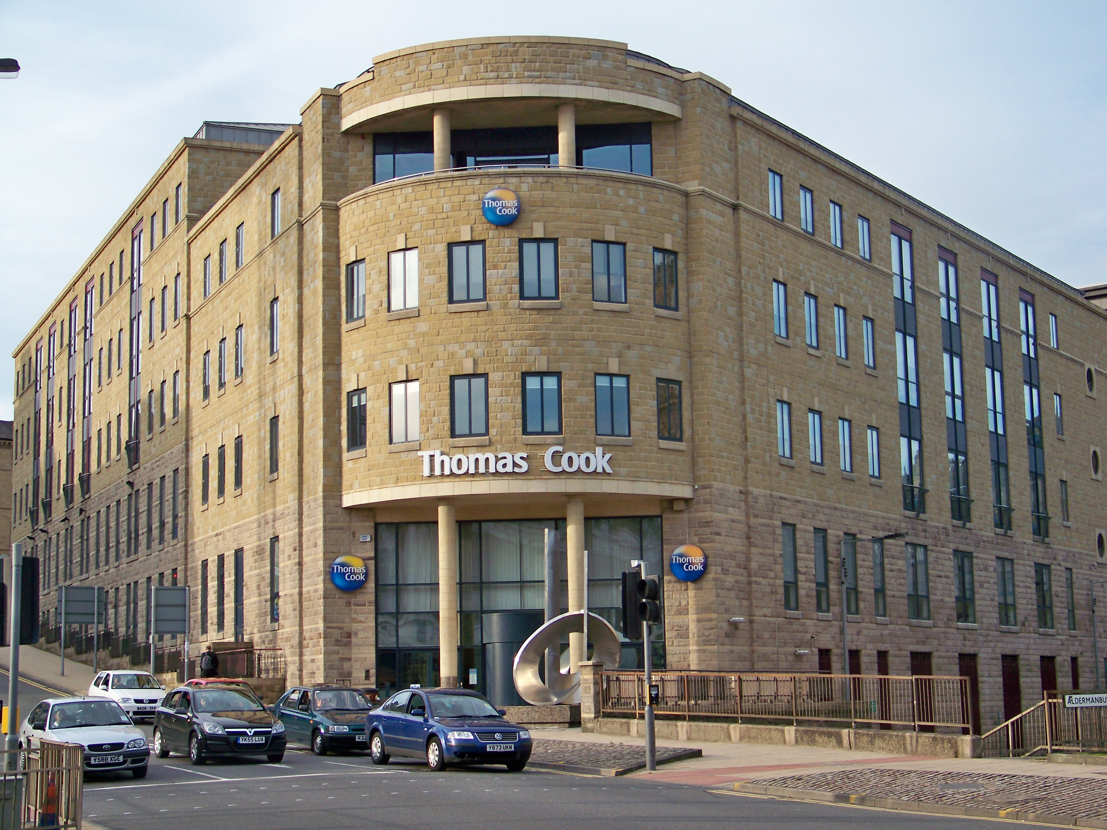 Thomas Cook Group offices in Bradford, West Yorkshire. Taken on the Evening of Wednesday 5th August 2009.